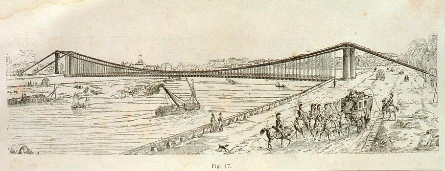 Project of Invalides bridge in Paris (1823) by Claude Louis Navier (1785-1836)